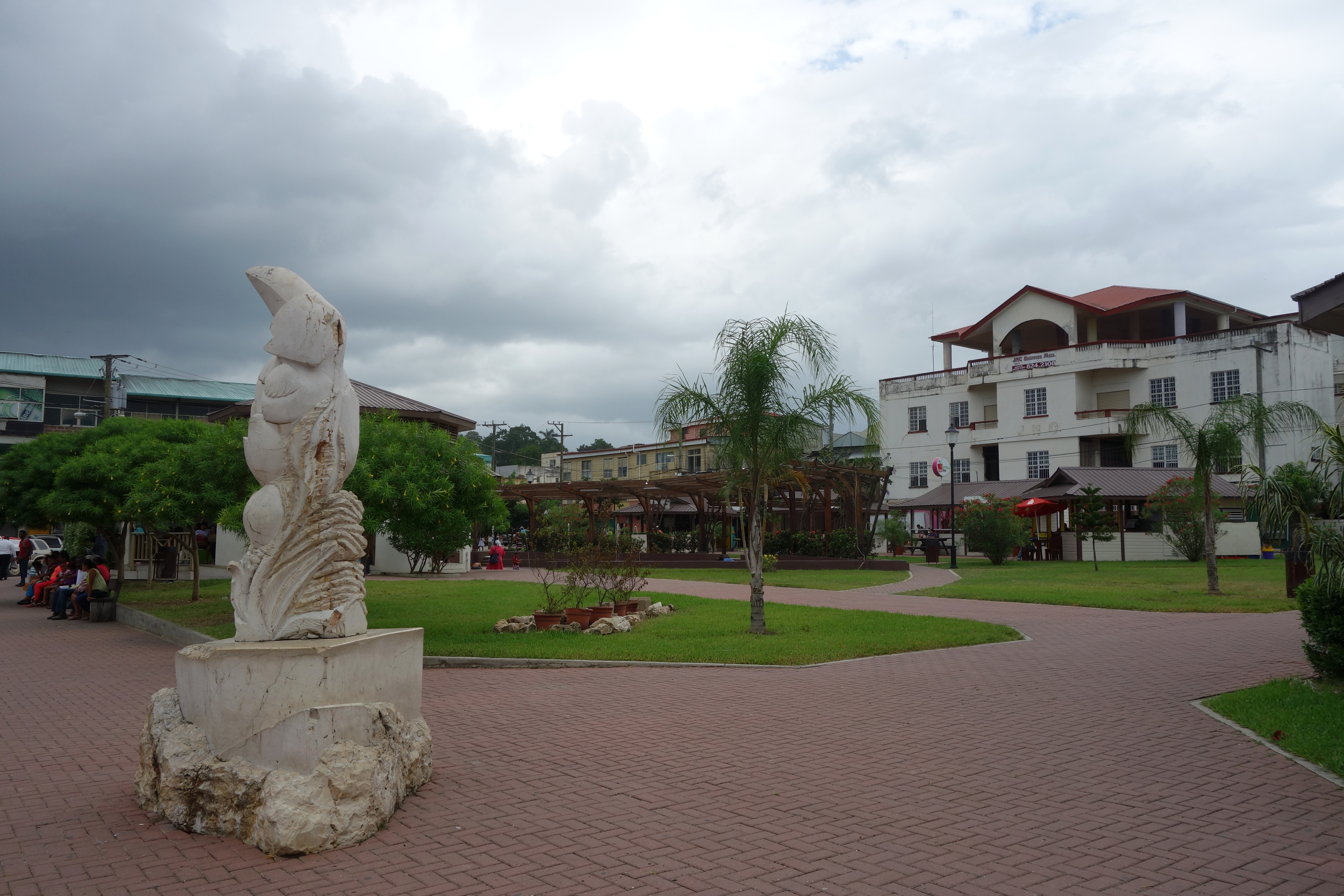 Central park of San Ignacio, Belize